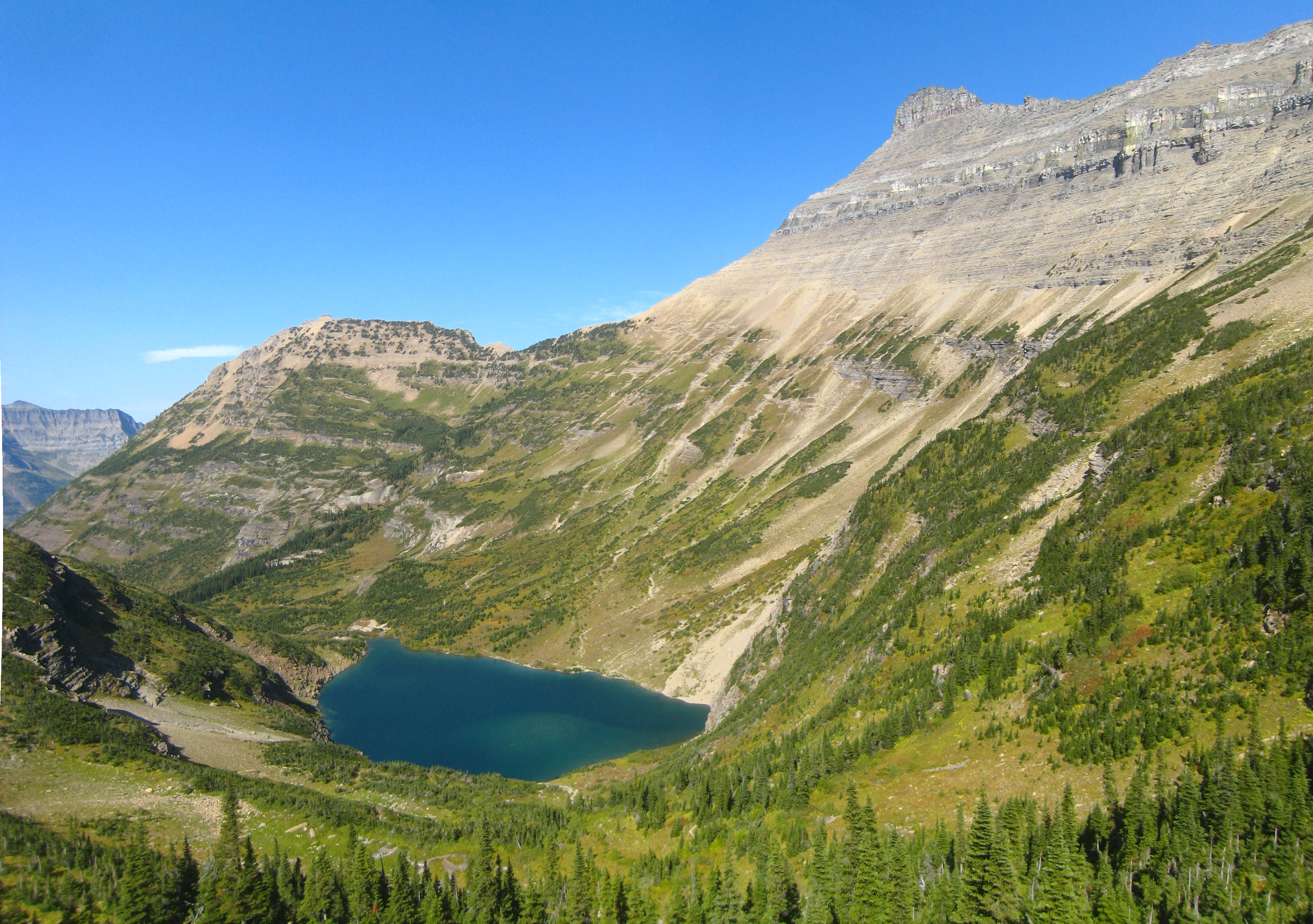 View of west from Stoney Indian Pass of Stoney Indian Lake in northern Glacier National Park